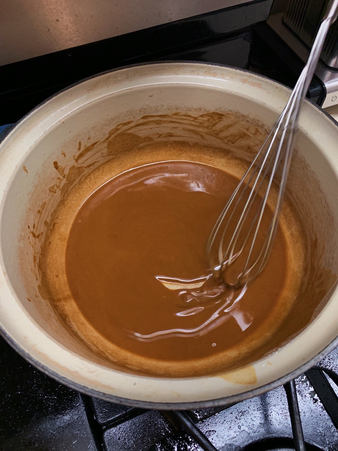 A dark roux being prepared for a pot of shrimp étoufée.